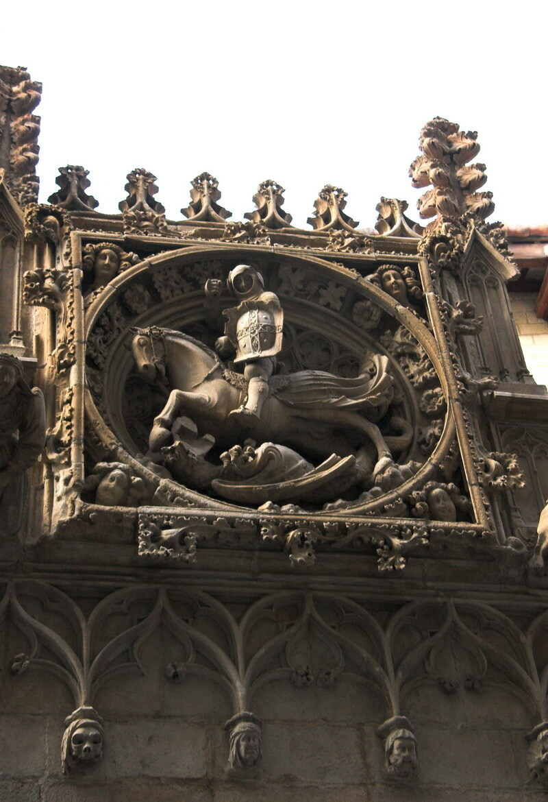 Sculpture of St. George presiding the old gothic façade of the Palau de la Generalitat (Catalan Government seat) in Barcelona, by Pere Joan (ca. 1420).